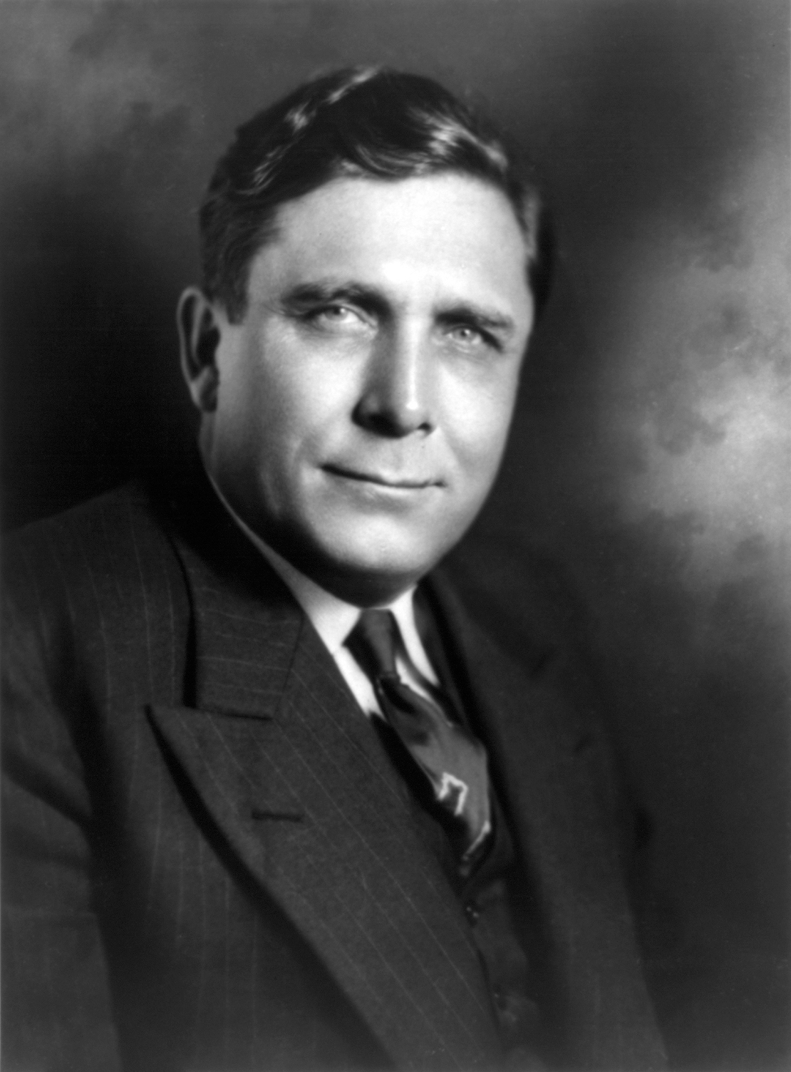 Wendell Willkie, bust-length portrait